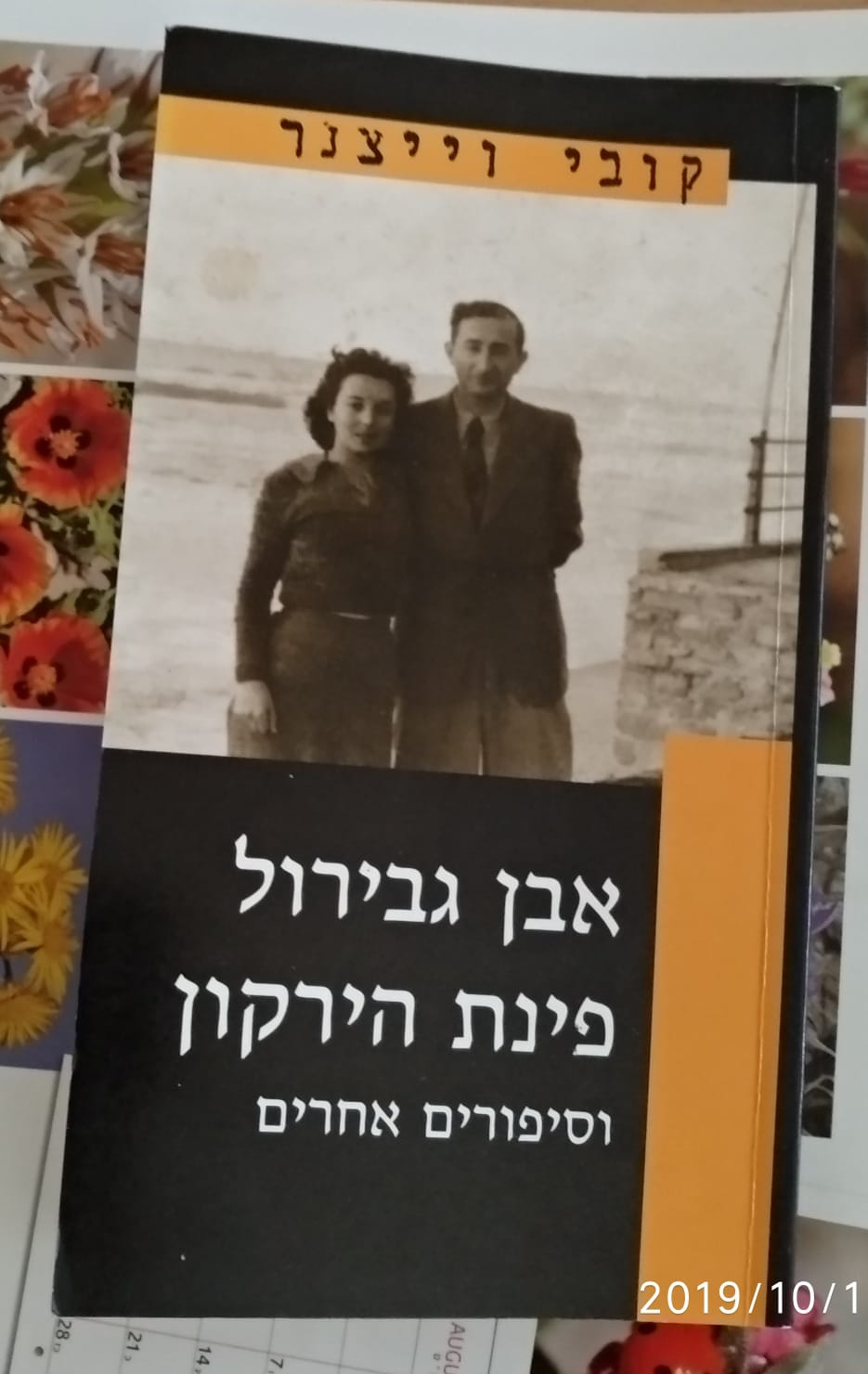 Front page of a book written by Kobi Weitzner